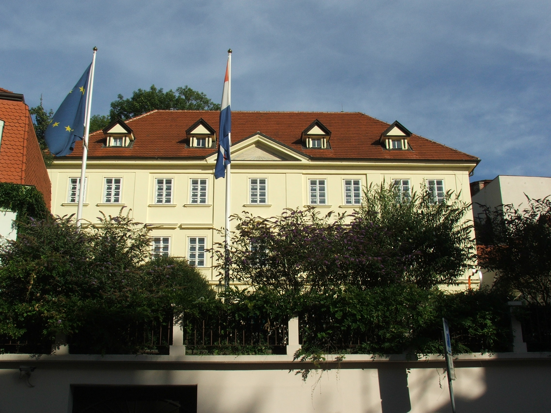 Embassy of the Netherlands in Prague - Bubeneč, Czechia